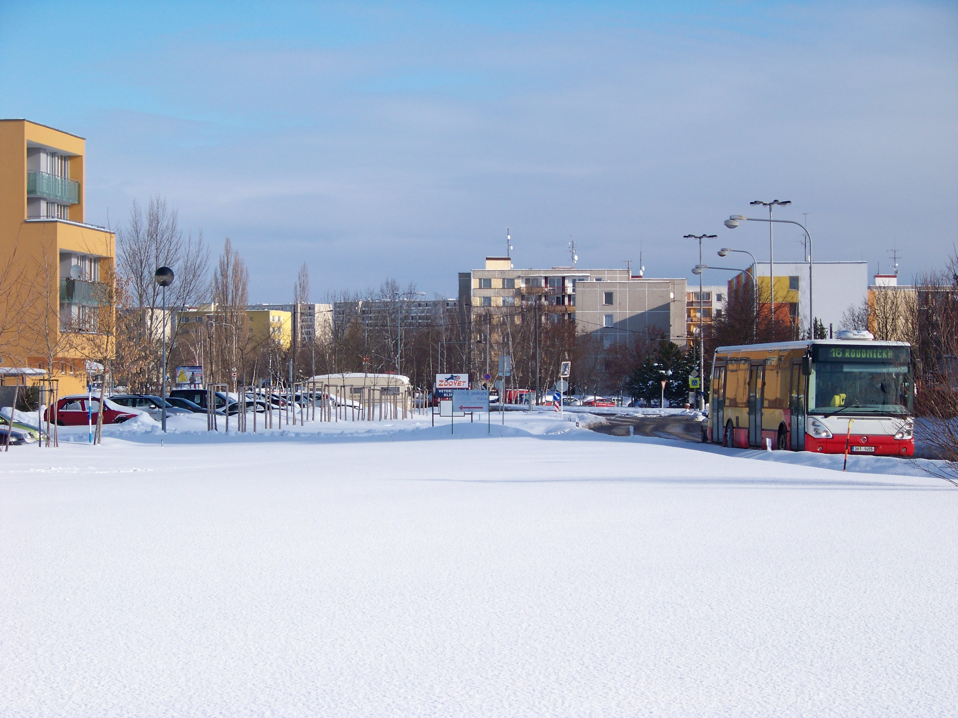 Hradec Králové-Třebeš, the Czech Republic. Zborovská Street.